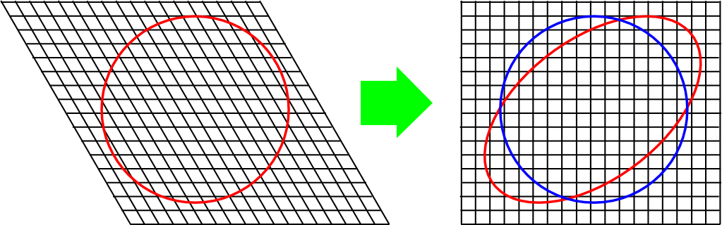 graphical visualization of the effect of keeping a plane wave basis constant during a lattice relaxation in a density functional calculation.